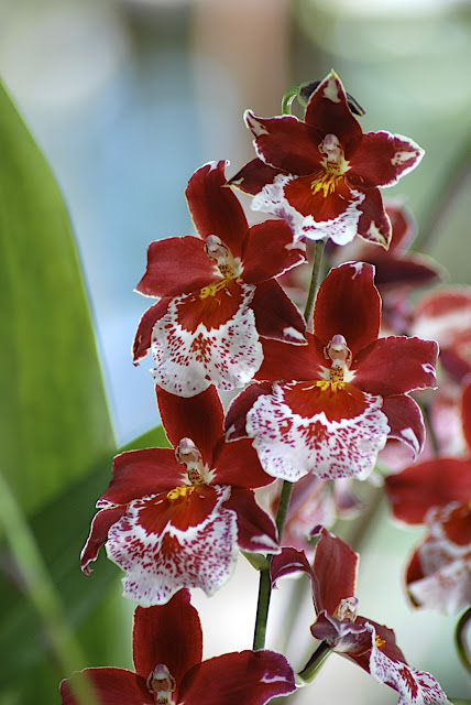 Orchid, hybrid, Oncidiinae